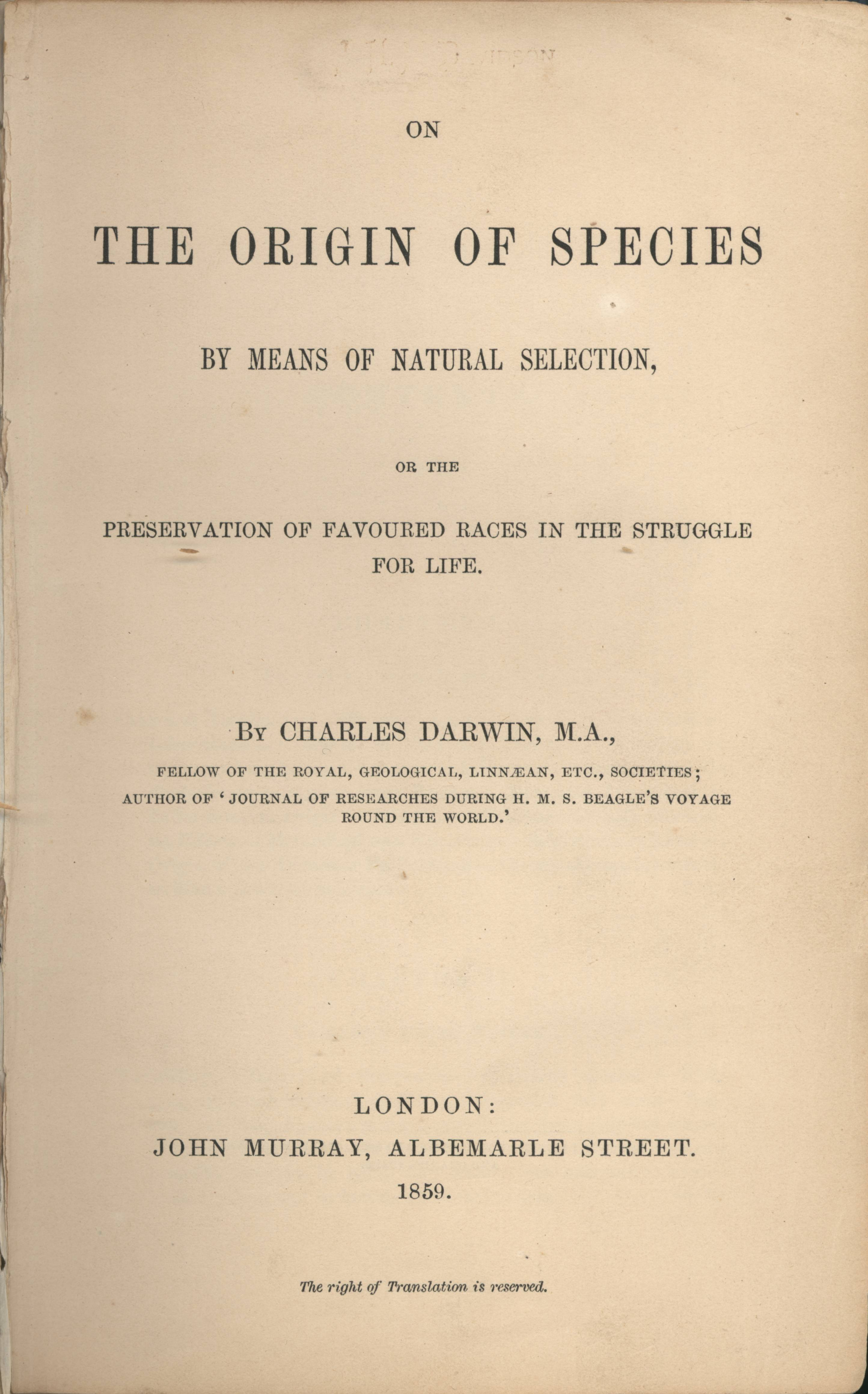 Cropped and rotated version of Image:Origin of Species.jpg, which is of the title page and the facing page of the 1859 Murray edition of the Origin of species by Charles Darwin.